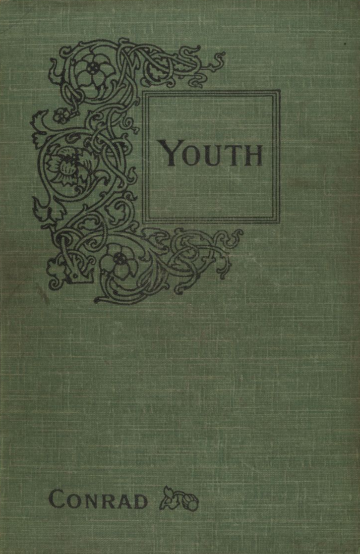 Book cover: Youth, a Narrative, and Two Other Stories by Joseph Conrad (1857-1924). William Blackwood and Sons, Edinburgh and London, 1902. *EC9 C7638 902y (A), Houghton Library, Harvard University